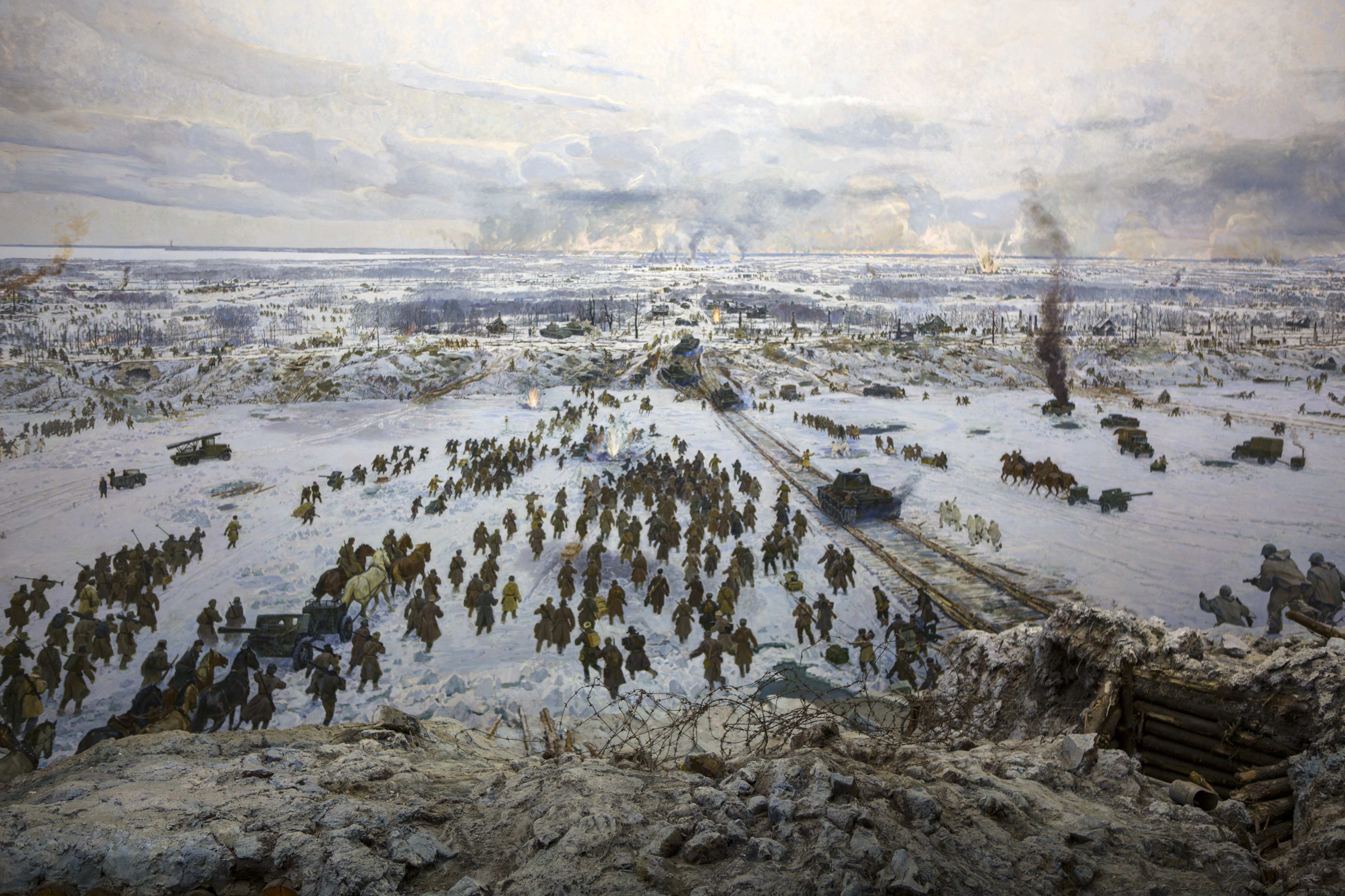 Leningrad Oblast